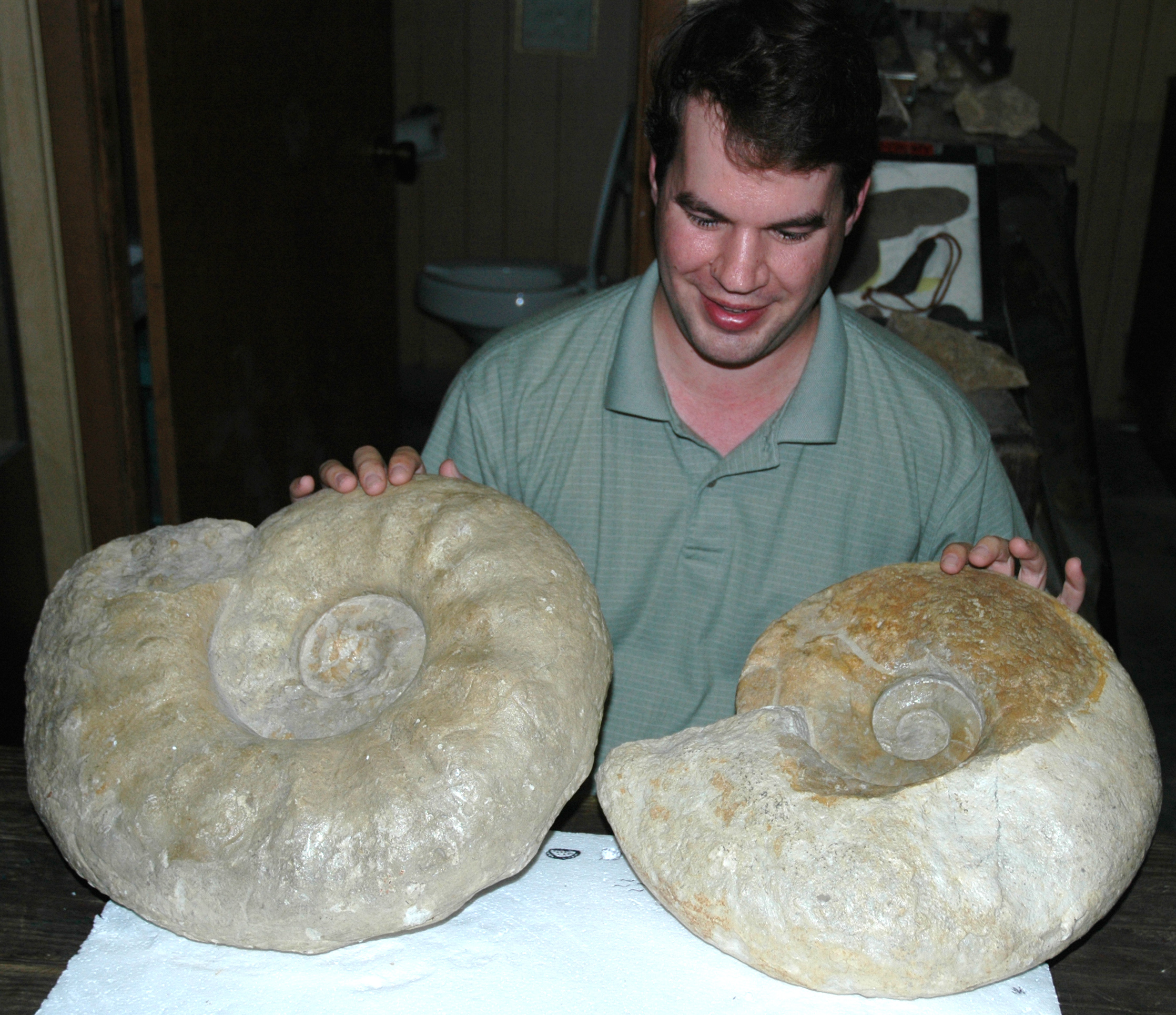 Eopachydiscus marcianus (Shumard, 1854) from the Cretaceous of Texas, USA (Bill Van Deventer private collection, displayed at Coral Caverns, off Cavern Street in the small town of Manns Choice, southern Pennsylvania, USA). Ammonites could attain large body sizes. Some fossils are so large that they cannot be picked up by one person. Here are a couple Eopachydiscus specimens that are getting to be a bit big. These are from the Duck Creek Formation (upper Albian Stage, mid-Cretaceous) of Spring Creek, Cook County, Texas, USA. Ammonites are common & conspicuous fossils in Mesozoic marine sedimentary rocks. Ammonites are an extinct group of cephalopods - they’re basically squids in coiled shells. The living chambered nautilus also has a squid-in-a-coiled-shell body plan, but ammonites are a different group. Ammonites get their name from the coiled shell shape being reminiscent of a ram’s horn. The ancient Egyptian god Amun (“Ammon” in Greek) was often depicted with a ram’s head & horns. Pliny’s Natural History, book 37, written in the 70s A.D., refers to these fossils as “Hammonis cornu” (the horn of Ammon), and mentions that people living in northeastern Africa perceived them as sacred. Pliny also indicates that ammonites were often pyritized. Classification: Animalia, Mollusca, Cephalopoda, Ammonoidea, Ammonitina